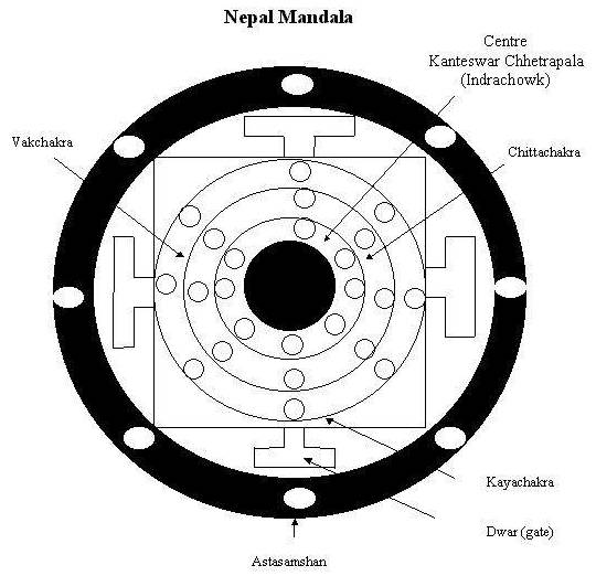 Symbolic diagram of Nepal Mandala.